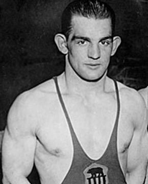 Ivar Johansson (wrestler)